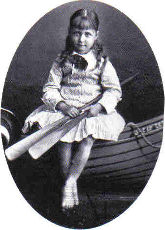 Princess Marie of Hesse and by Rhine (1874-1878)